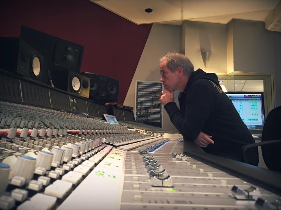 Steve Forward at Studios de la Seine Paris (2016)